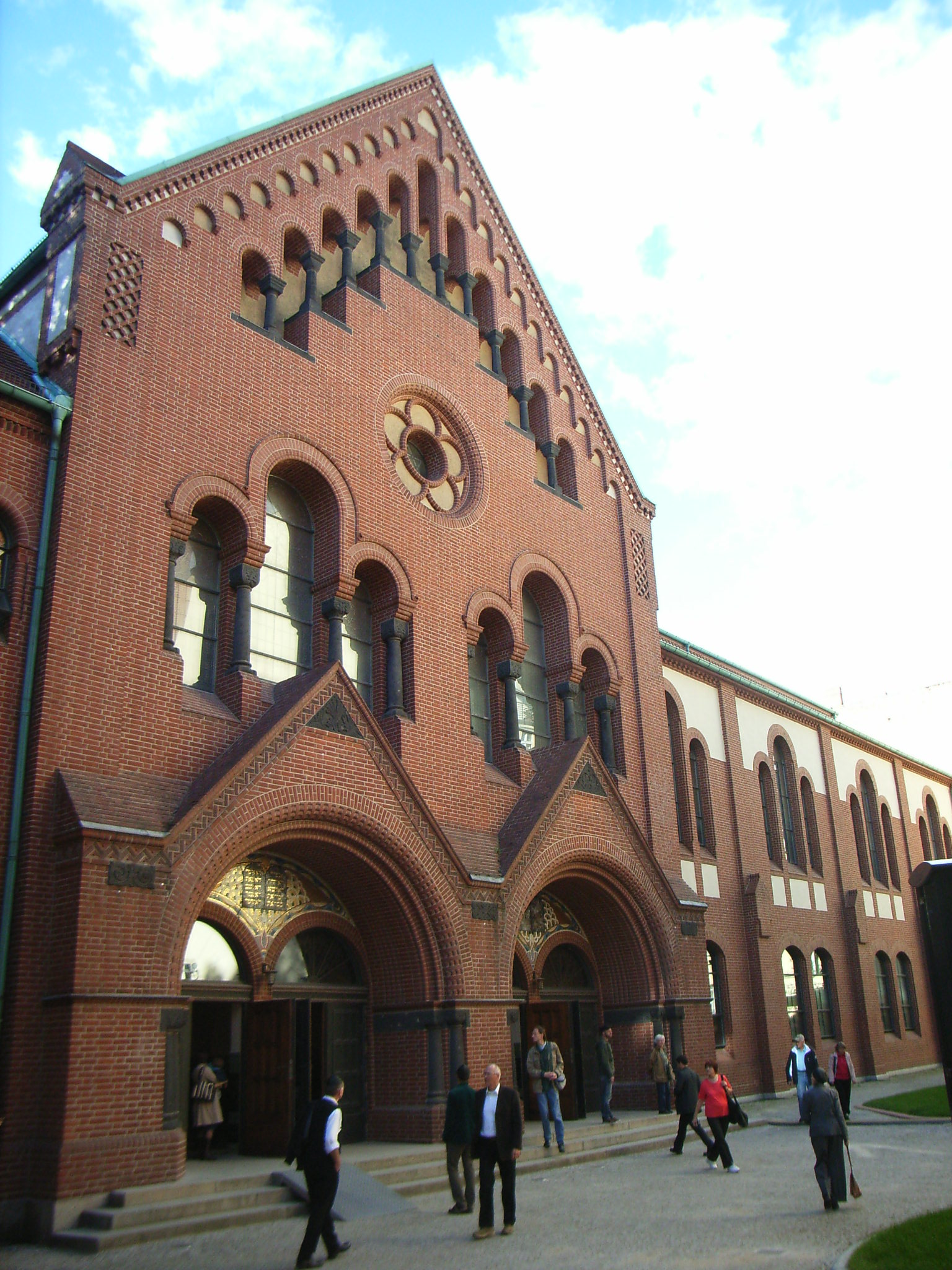 Entrance area of the Rykestrasse synagogue in the Prenzlauer Berg district of Berlin (Germany)